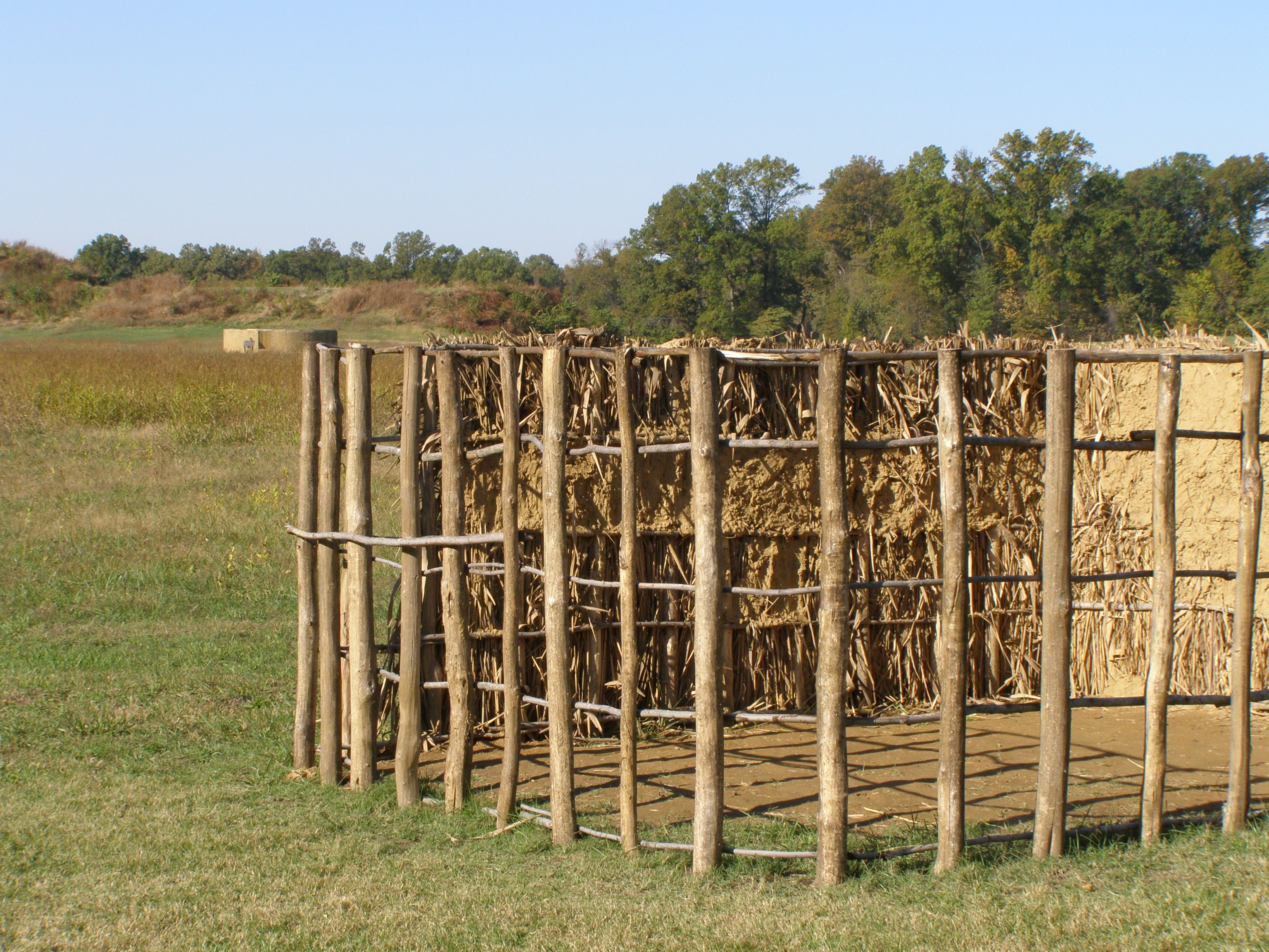 Wattle and daub construction at Angel Mound State Historic Park Museum near Evansville, Indiana